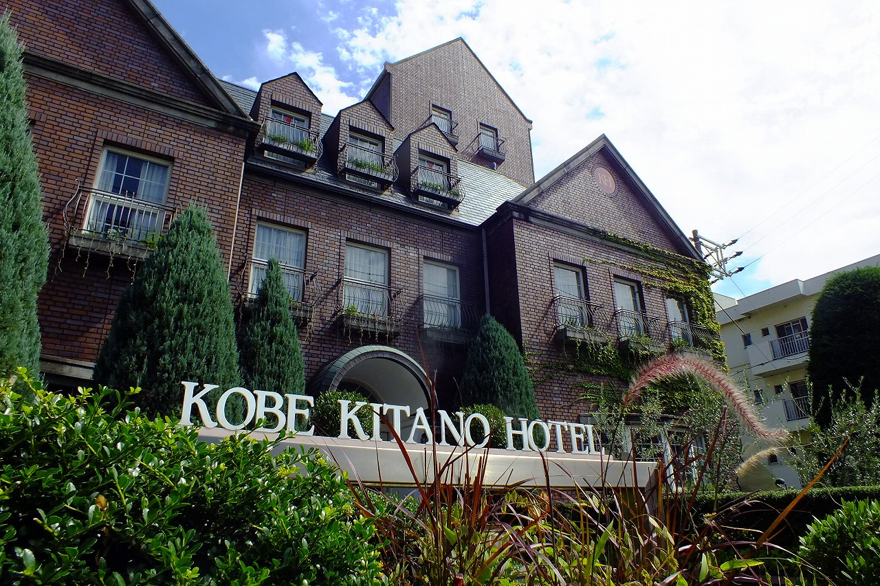 神戸北野ホテル Kobe kitano hotel 2017年9月30日、9:27